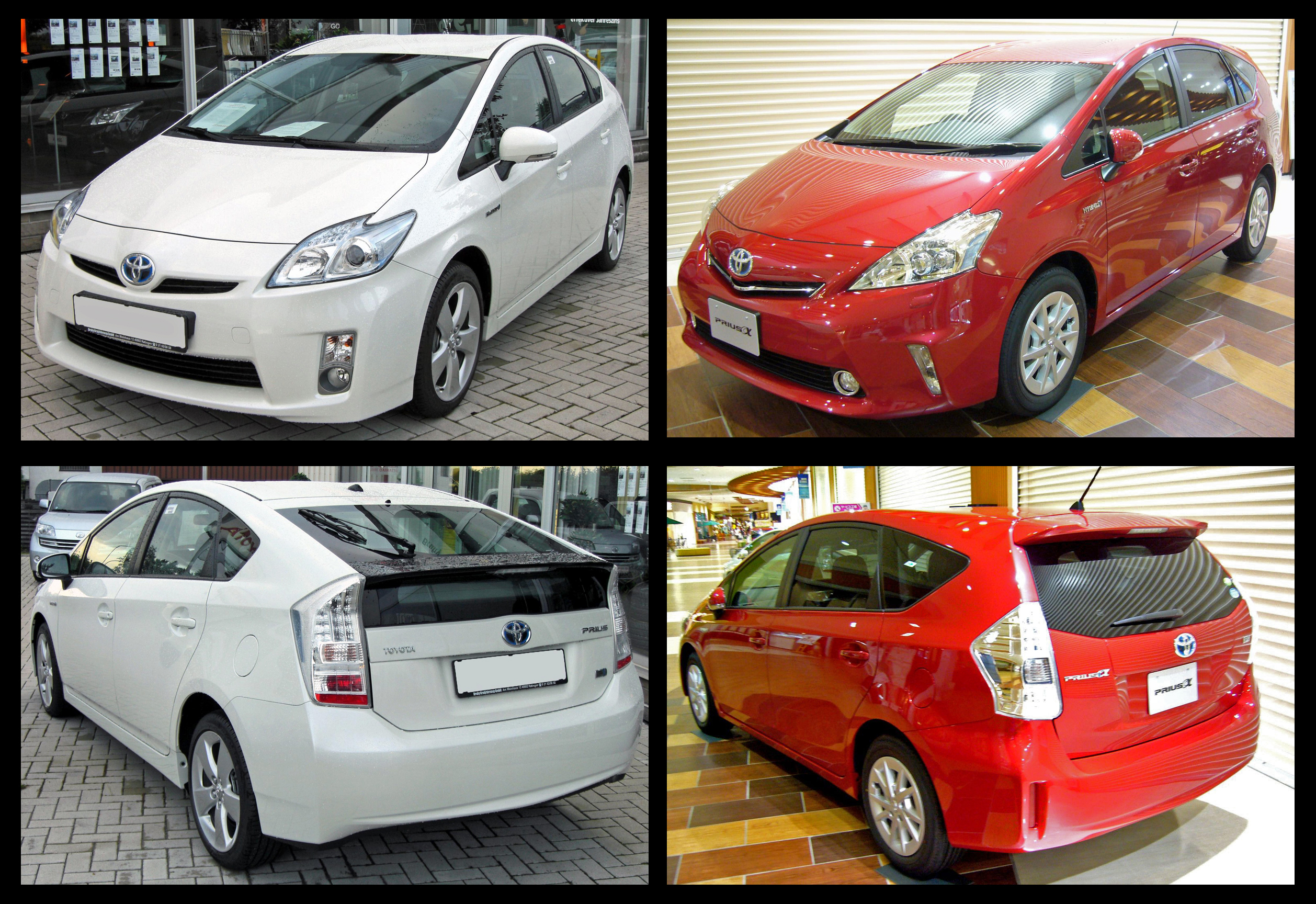 Collage comparing the front and rear views of the 2010 Toyota Prius (third generation) and the Toyota Prius Alpha (Japan) or Prius v (USA)